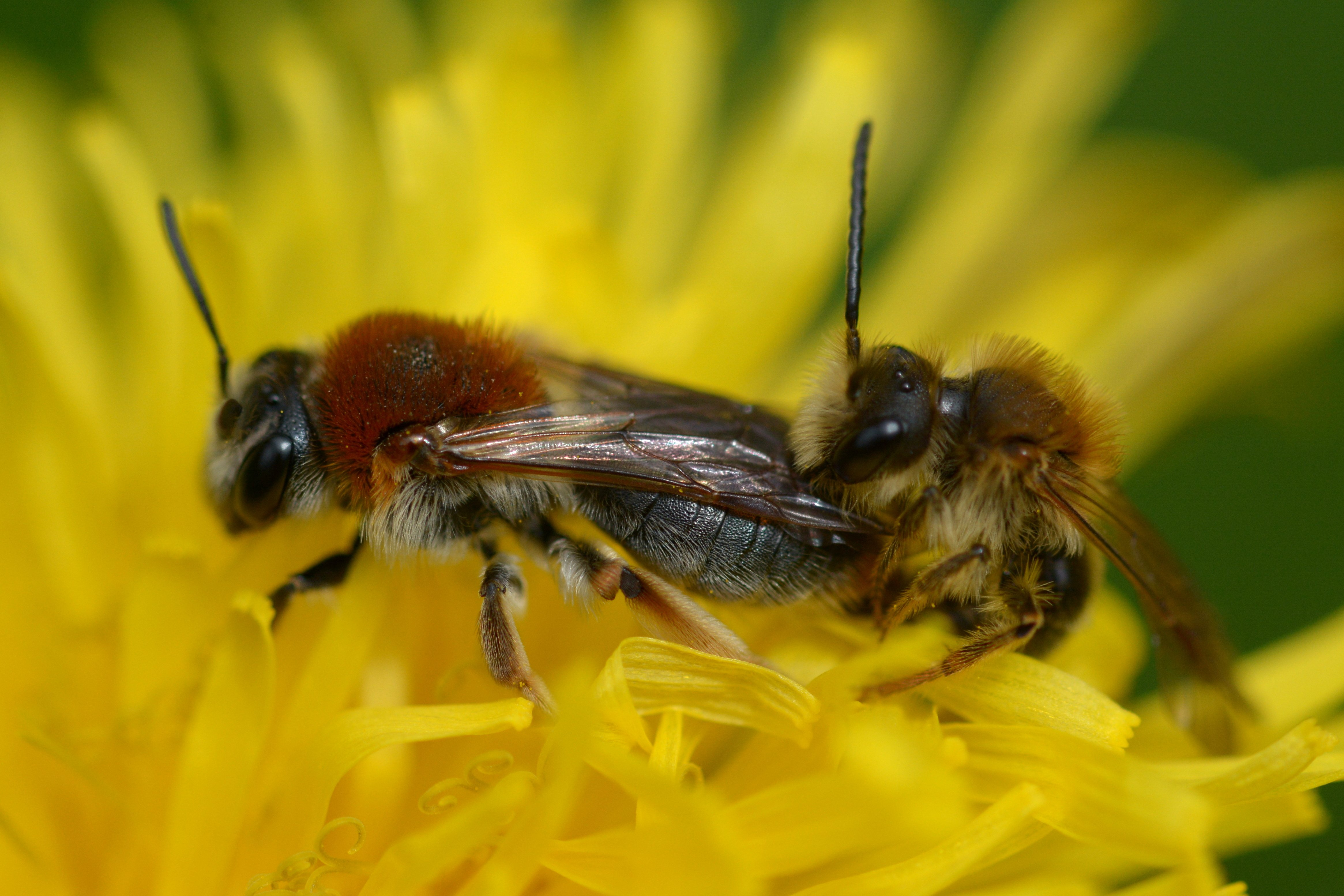 Early Minig Bee Andrena haemorrhoa mating in Altona, Hamburg.